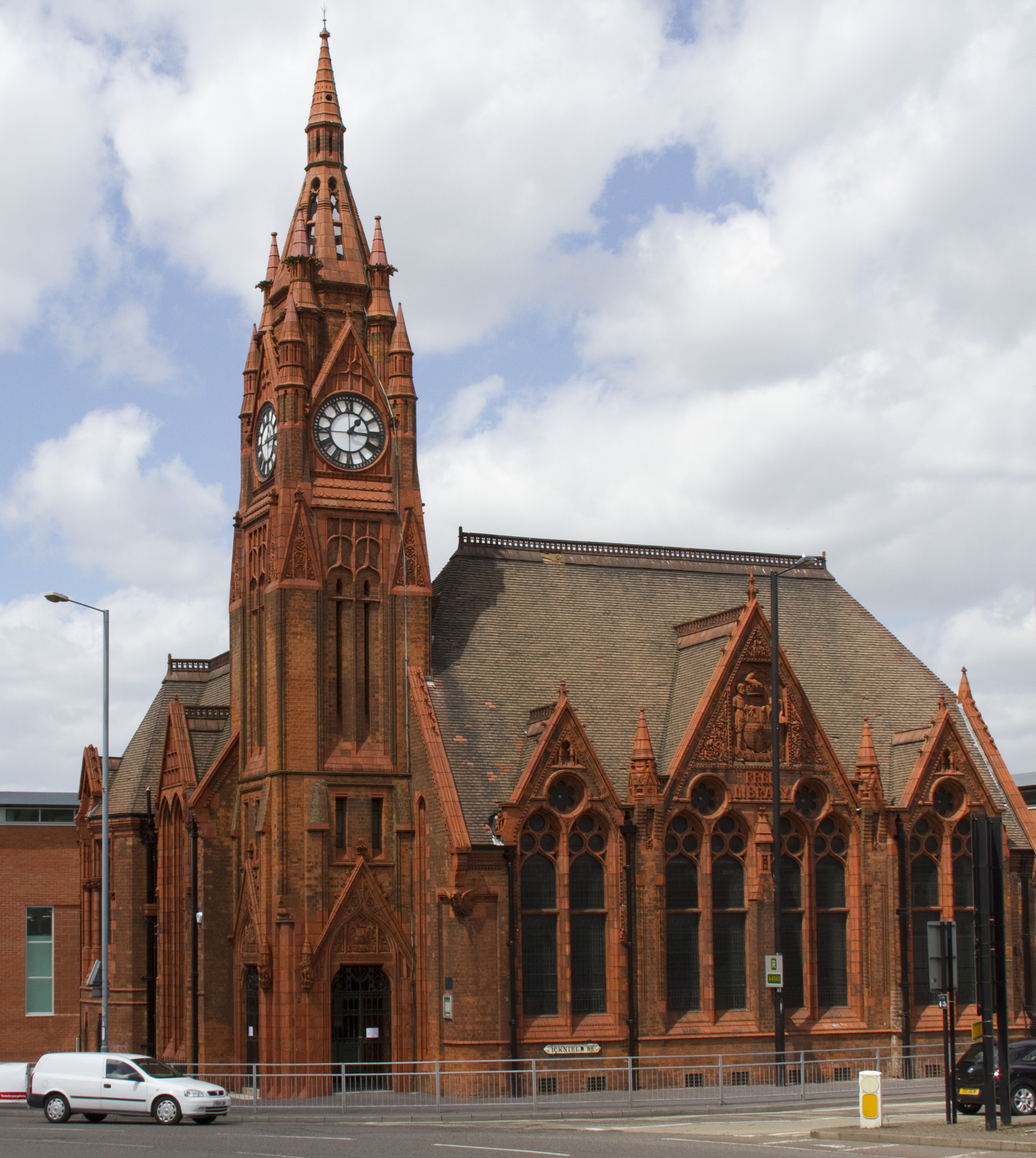 Spring Hill Library, with clock tower — in Birmingham. A red Brick and Terracotta Gothic styled Library, designed by Martin and Chamberlain and completed in 1893